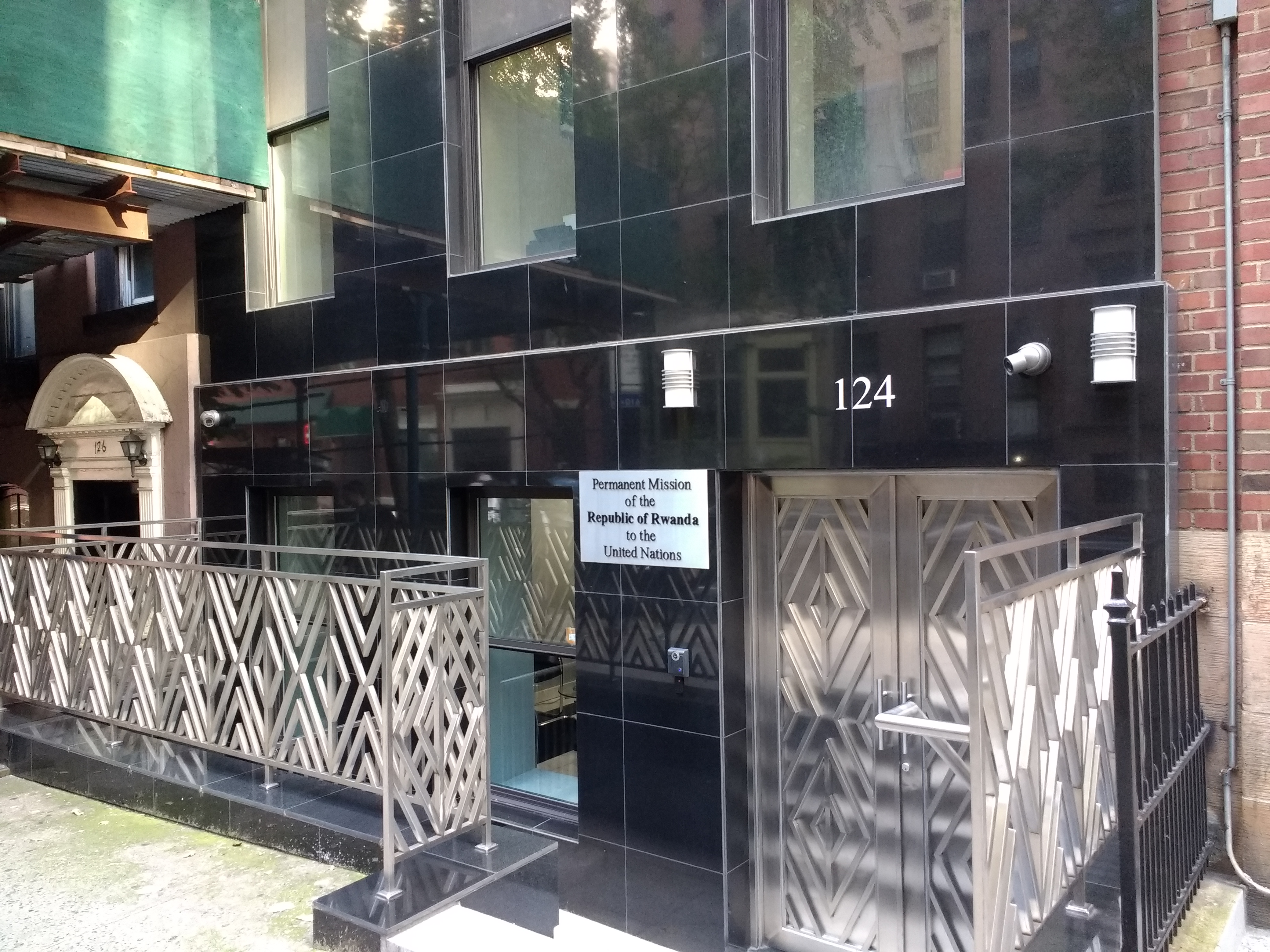 Permanent Mission of the Republic of Rwanda to the United Nations, New York City.